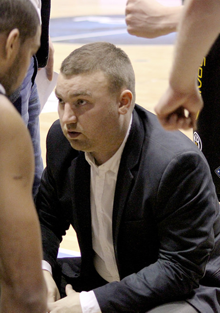 Finnur Freyr Stefánsson coaching KR at the 2015 Icelandic Basketball Cup finals.